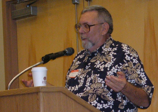 Picture of Rob Miller "Roblimo" giving a speech